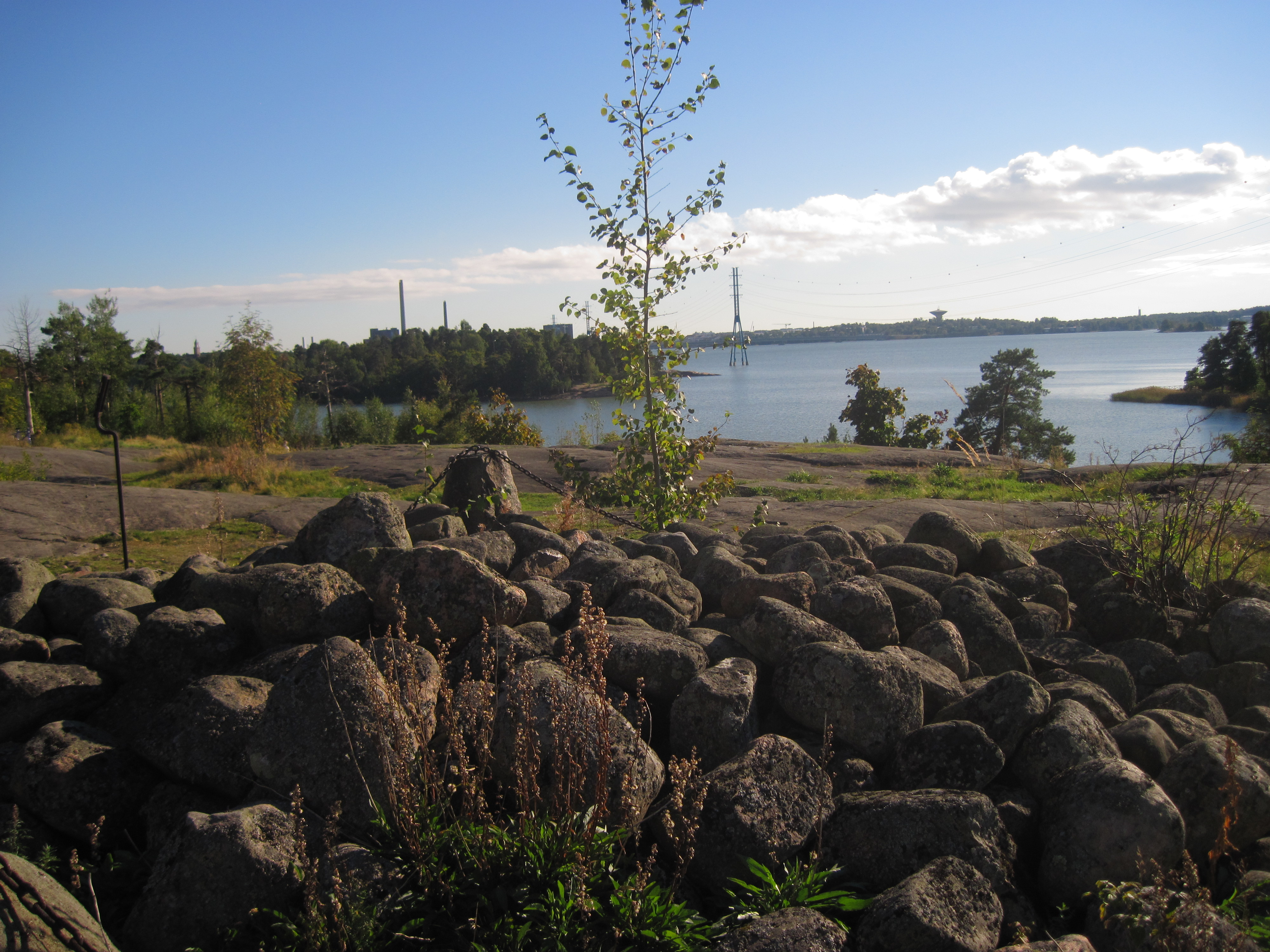 Bronze Age cairn tomb on the shore of Humallahti, Helsinki, Finland